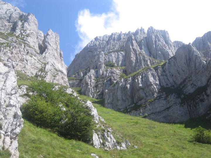 Pamje nga mali i Pashtrikut